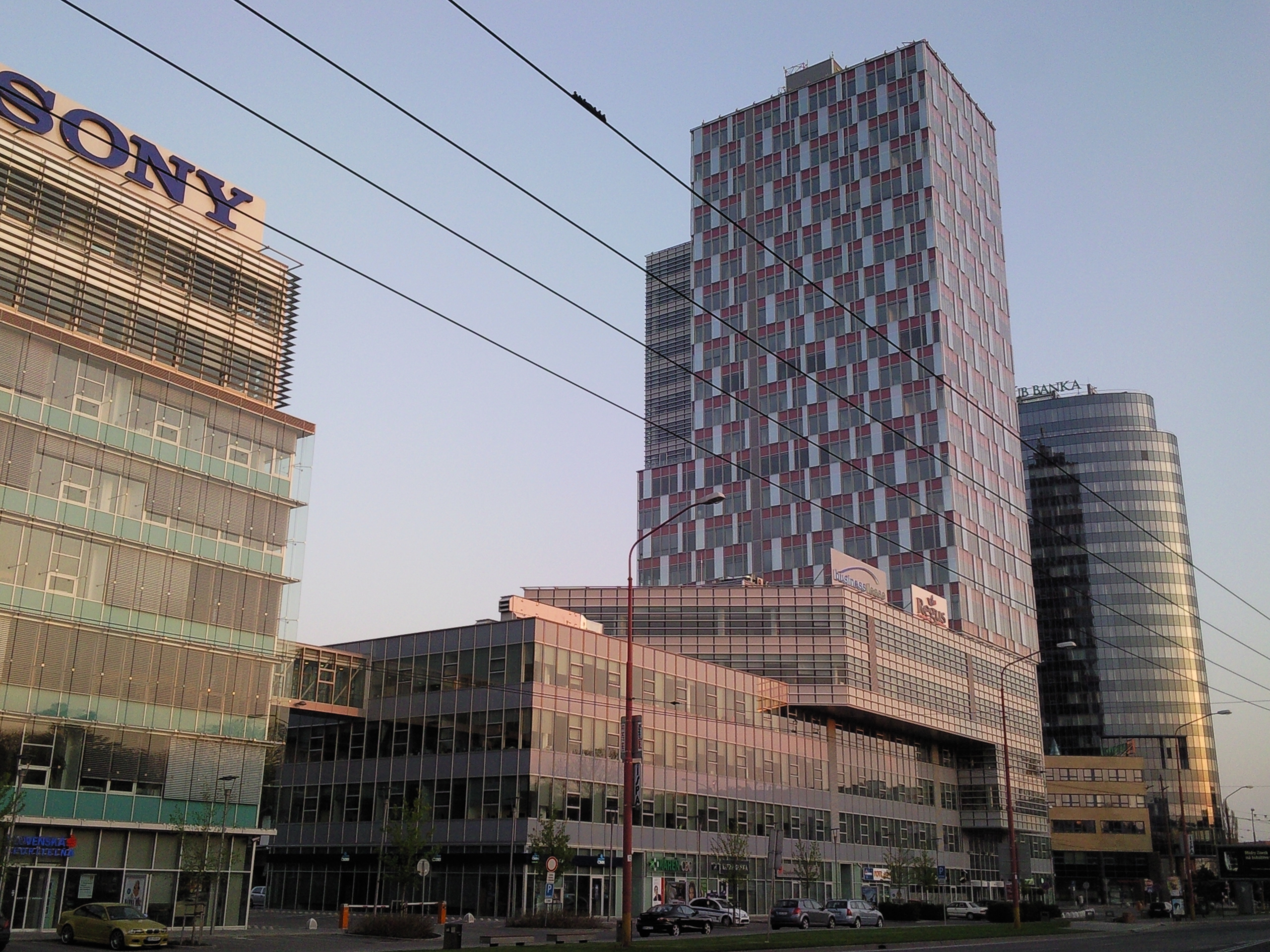 High-rises in Bratislava at Karadžičoca street